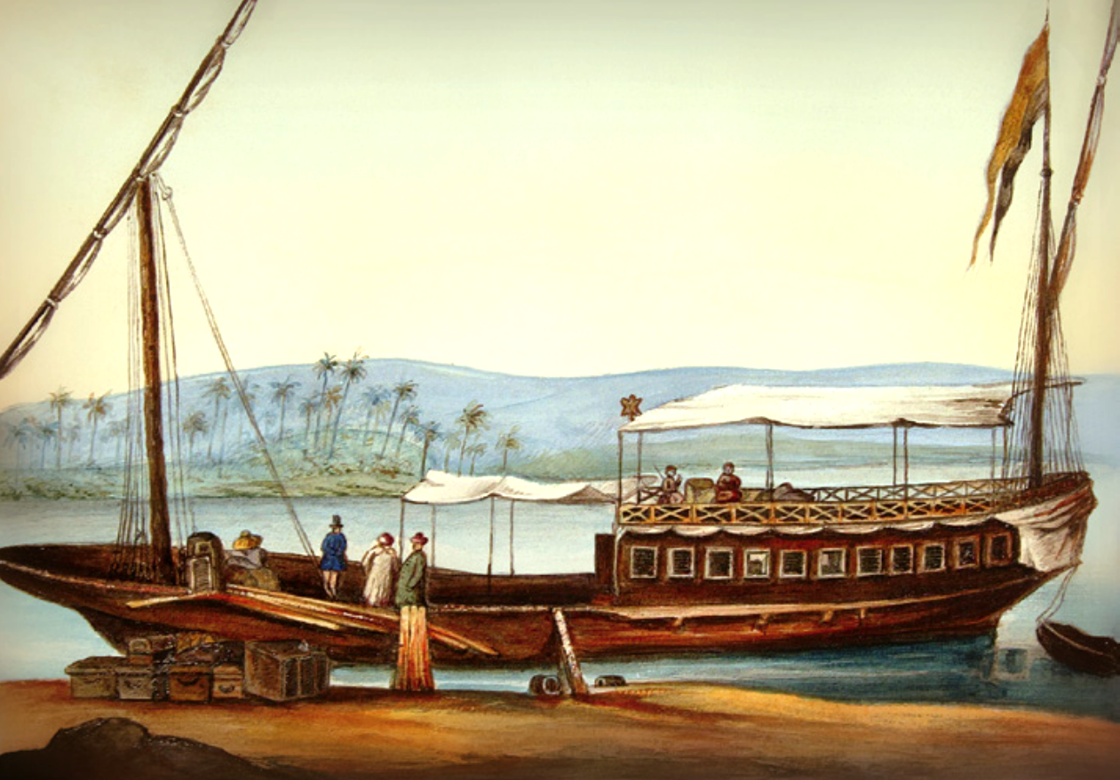 Stella matutina (ship of Ignacij Knoblehar)